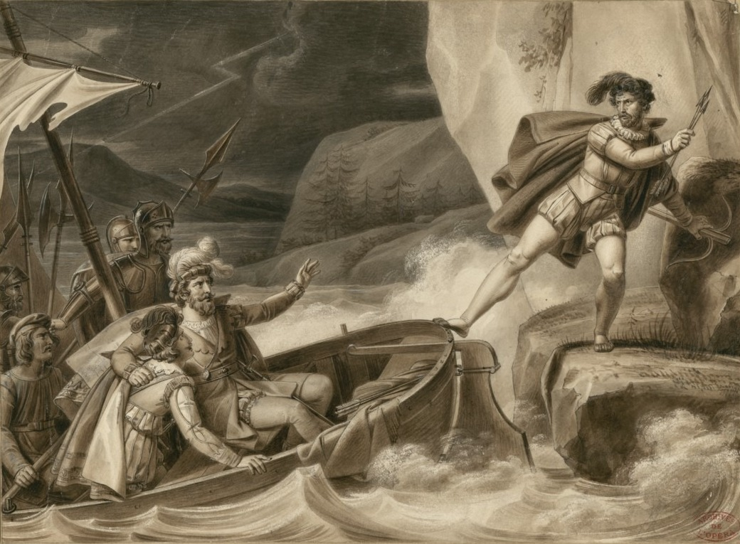 Gioachino Rossini - Guillaume Tell - Charles-Abraham Chasselat - dessin préparatoire à la gravure 1